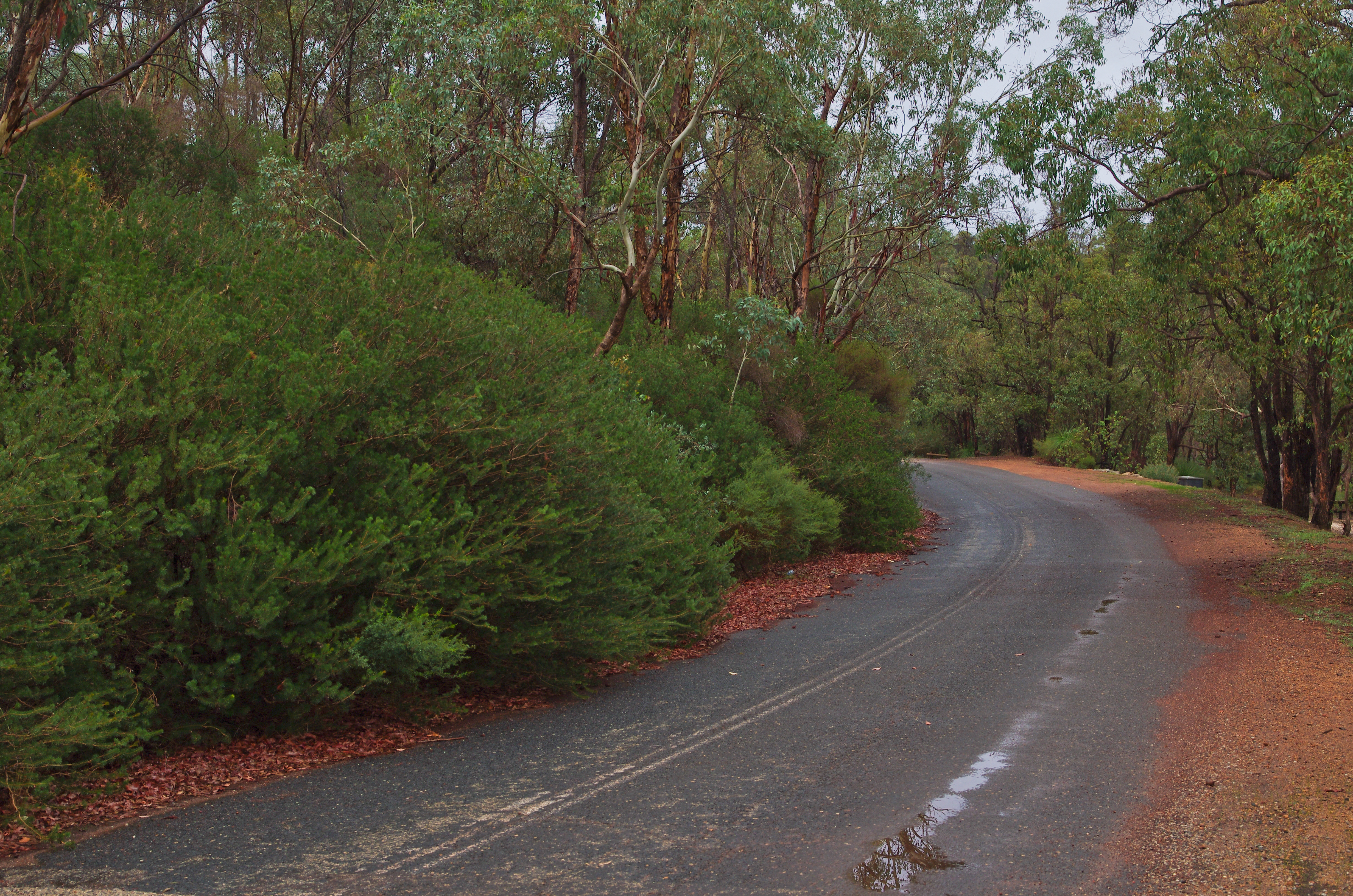 disused section of Toodyay road at Noble Falls, Gidgegannup, Western Australia